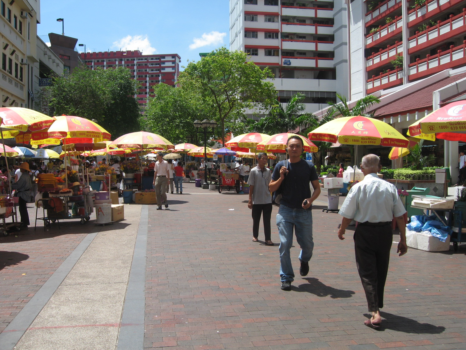 Waterloo Street.